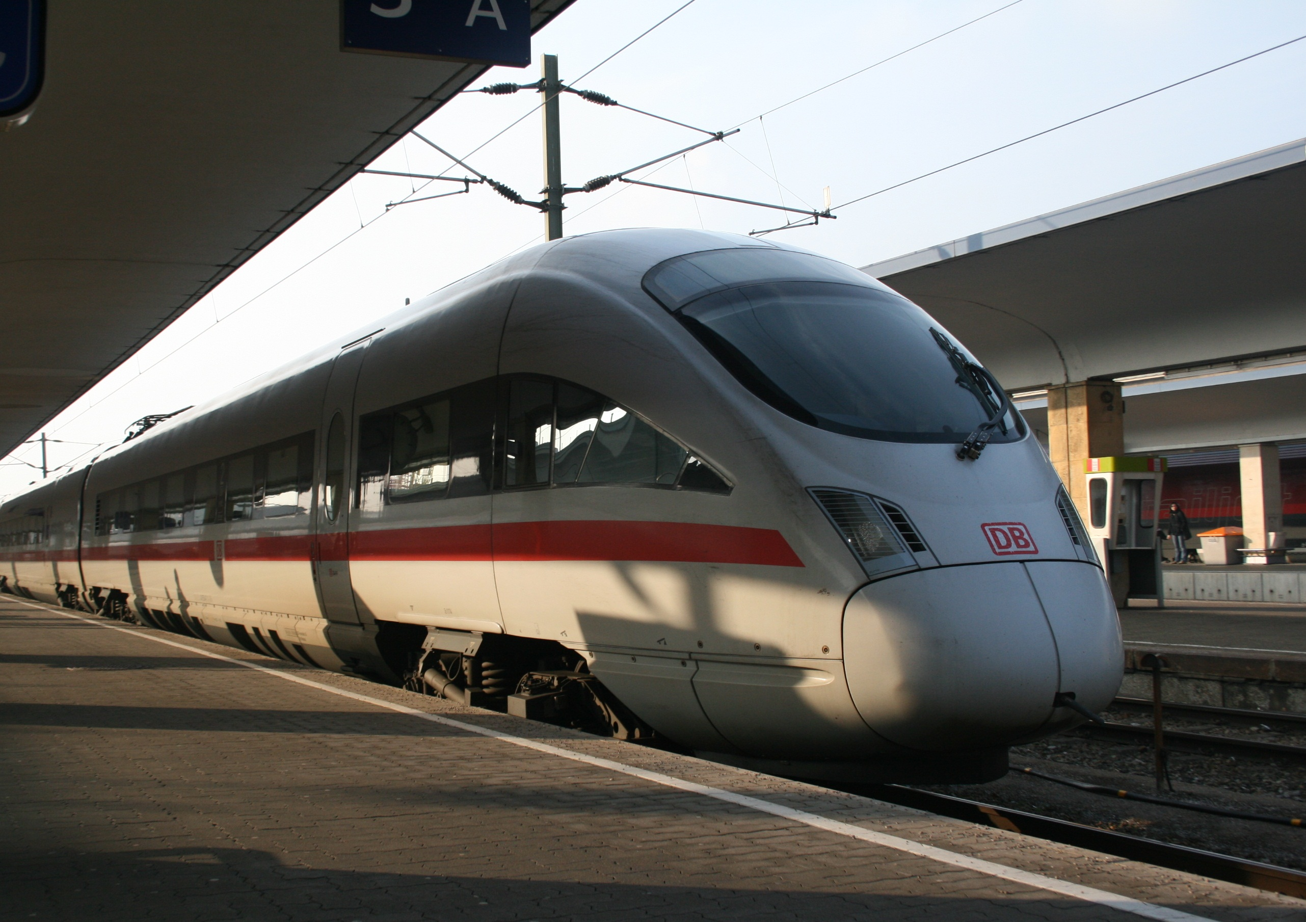 An ICE-T train in Vienna Westbahnhof